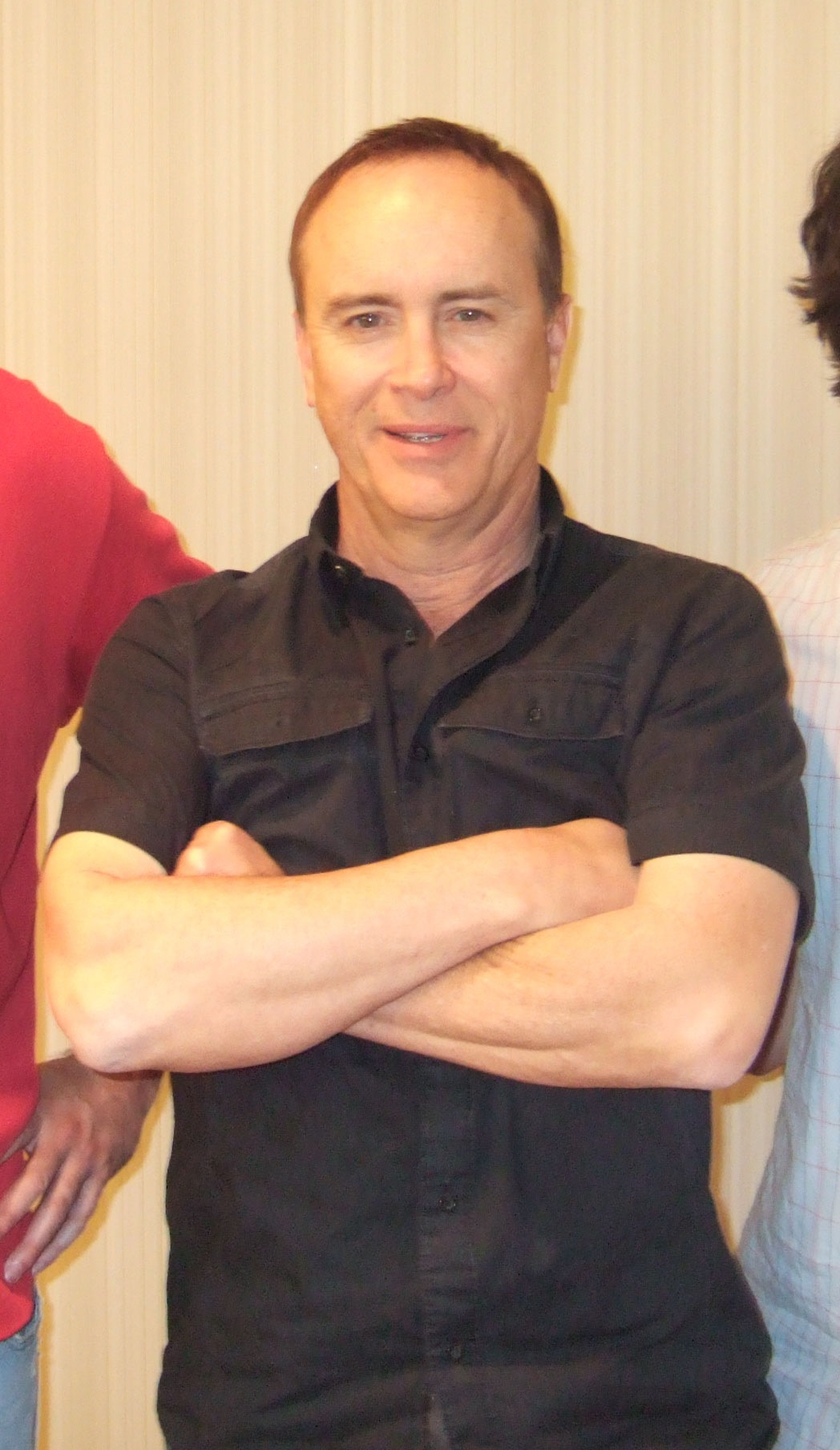 Jeffrey Combs at the Chiller Theatre Expo at the Sheraton Parsippany Hotel in Parsippany, NJ, April 27, 2013. Cropped version of an original photo with two fans.